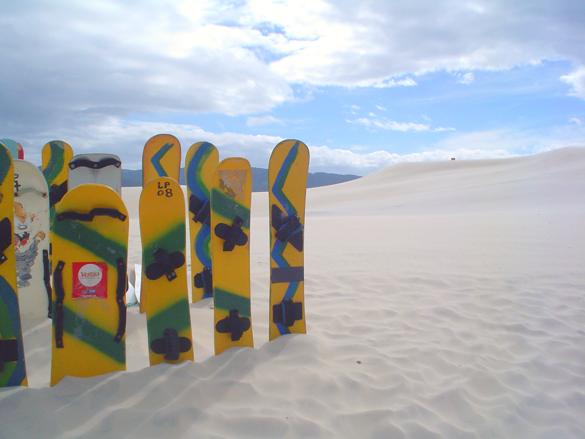 Sandboards in Brazil